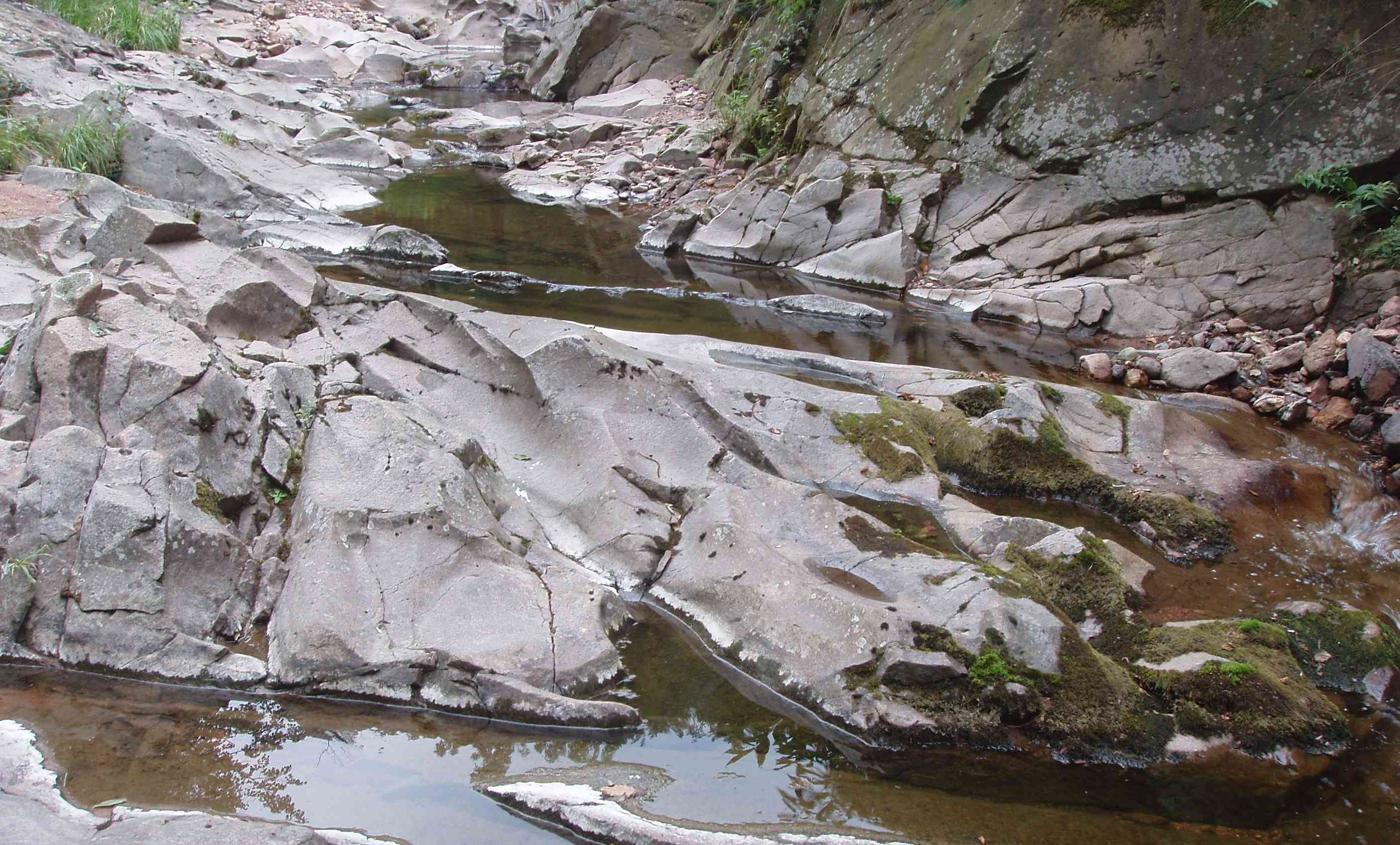 Ravasanella creek (Piedmont, Italy)